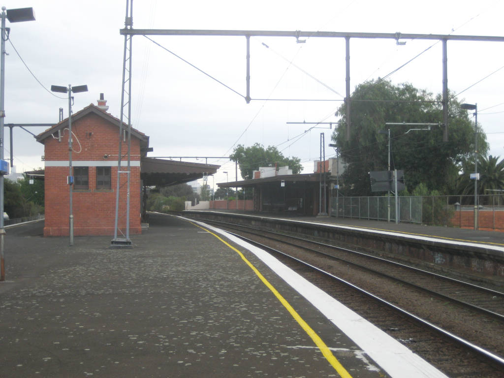 View of Auburn railway station, Melbourne looking towards Melbourne